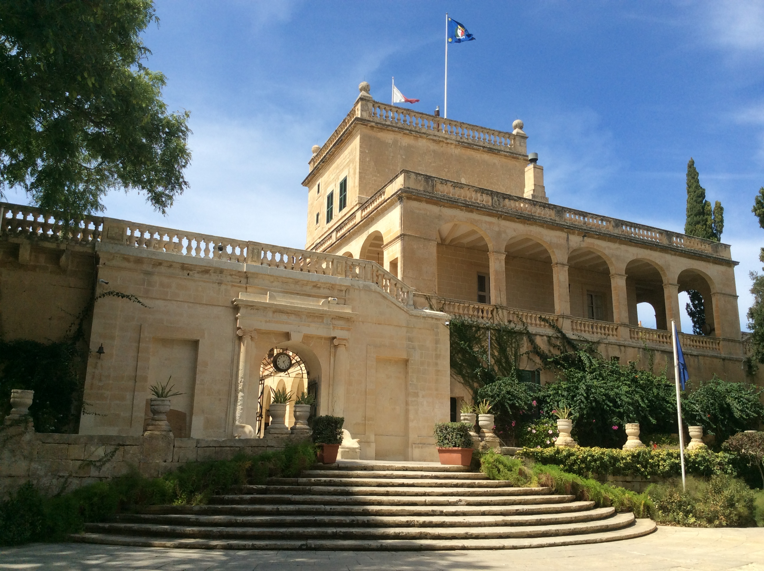 San Antonio Palace and Gardens This media is about Maltese cultural property with inventory number 01152.